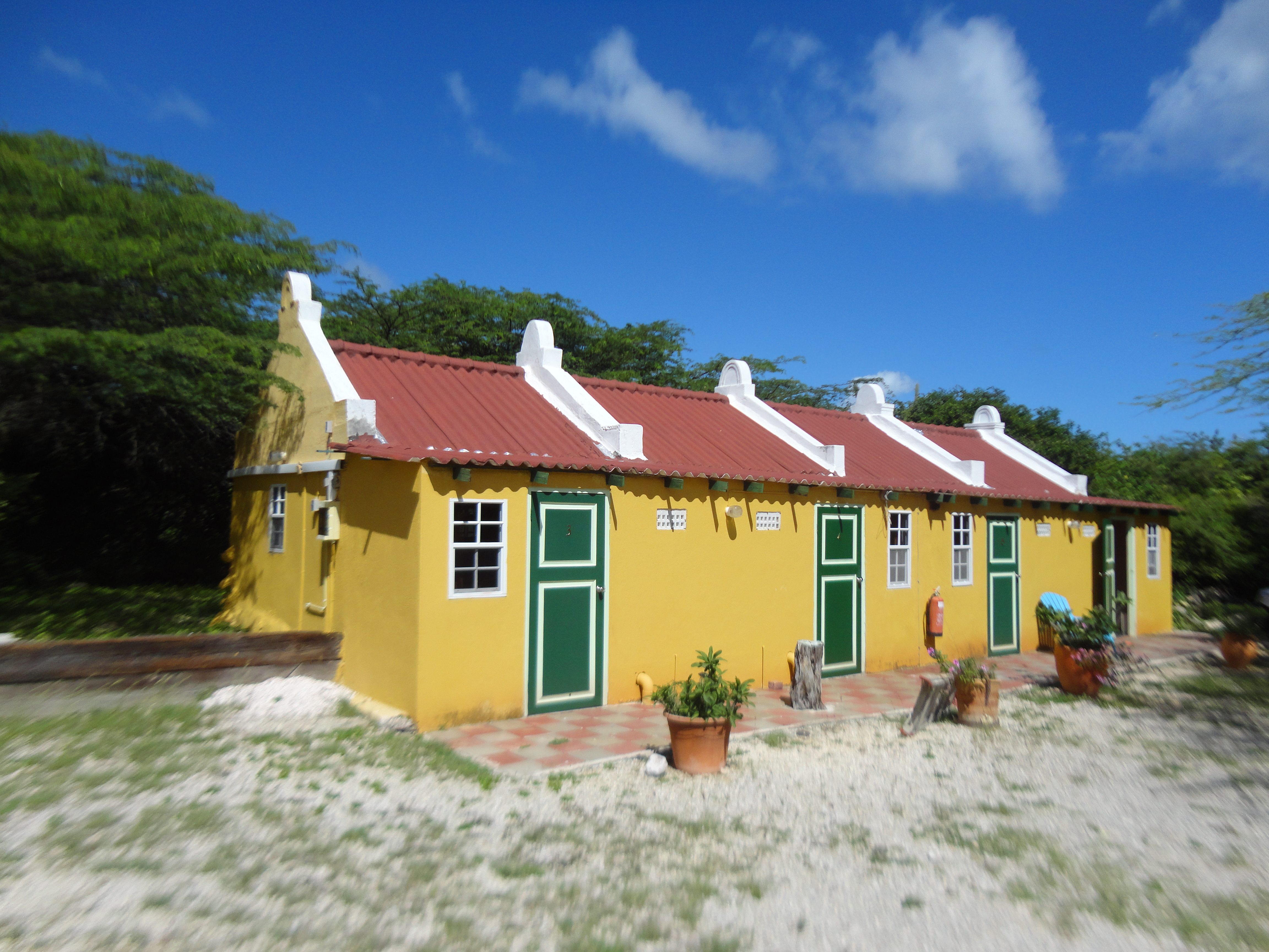 Former Slave Quarters at Landhuis Daniel